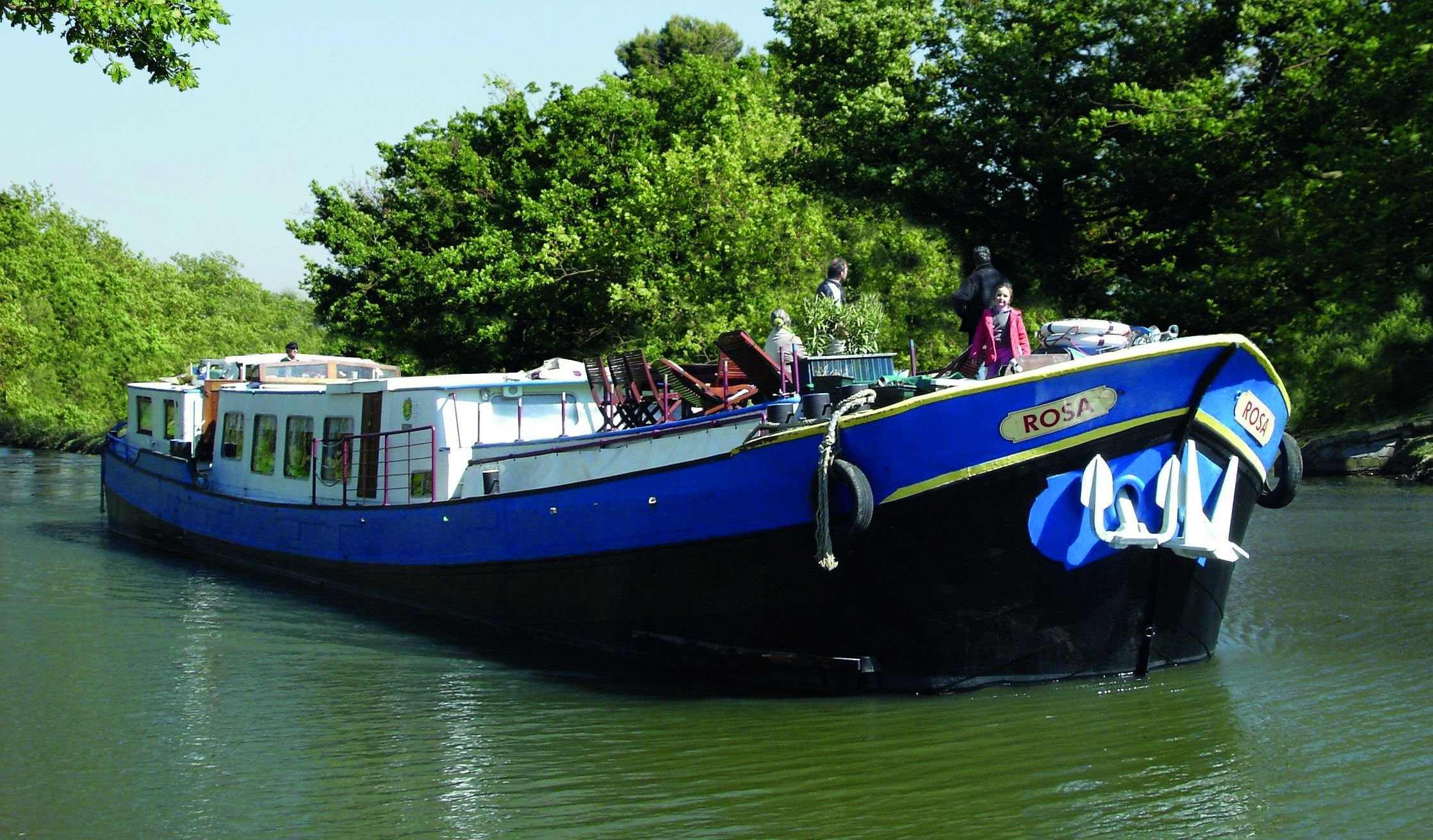 Rosa hotel barge front view.